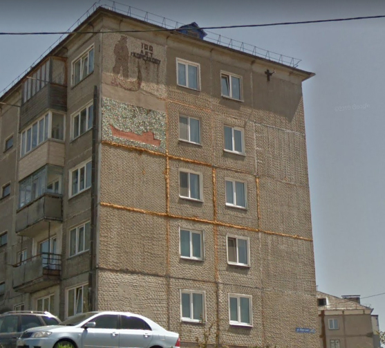 Apartment building built in 1969 with mosaic entitled "100 years of Korsakov" on its facade